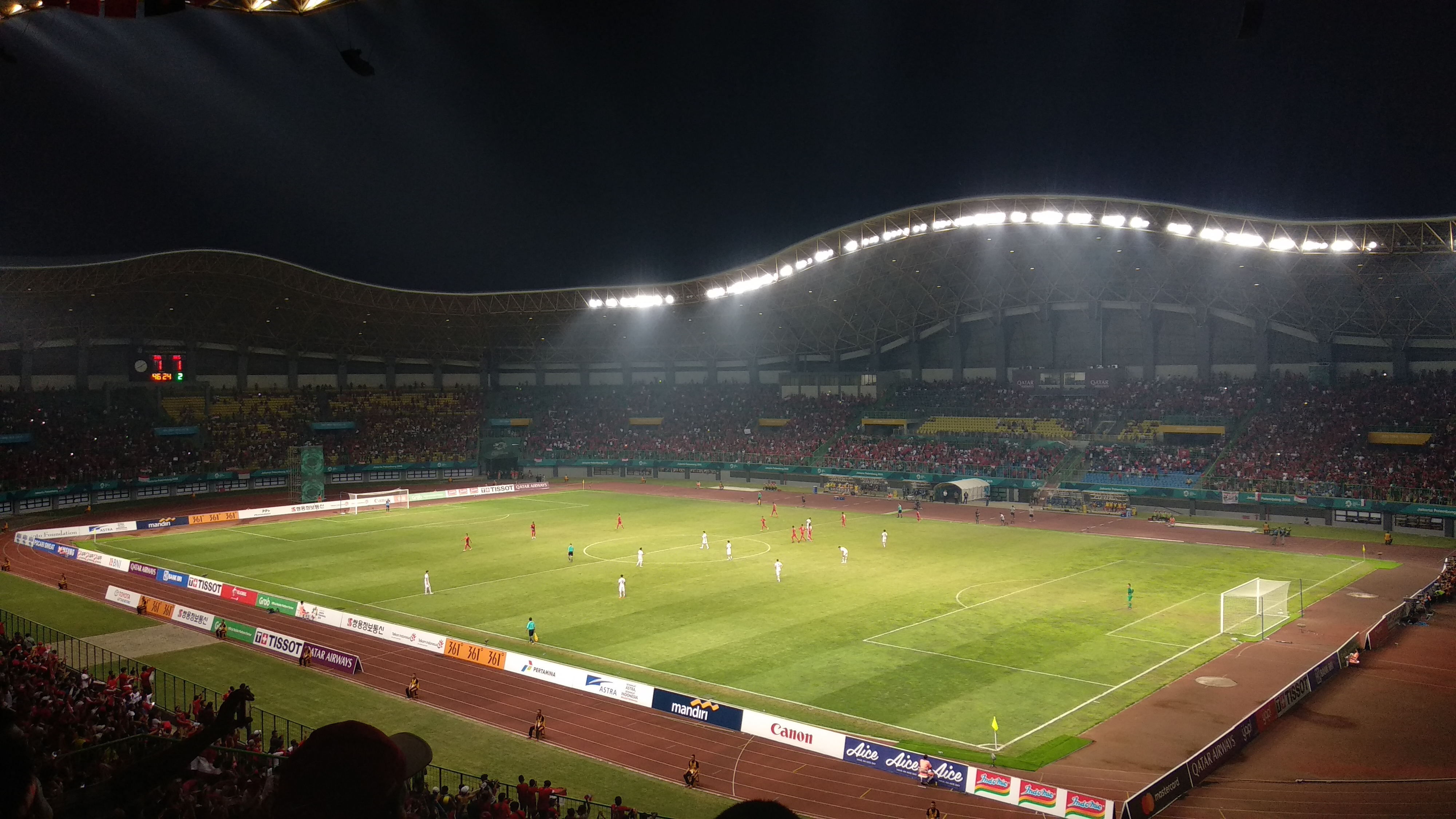 Stadion Patriot Chandrabhaga, Kota Bekasi